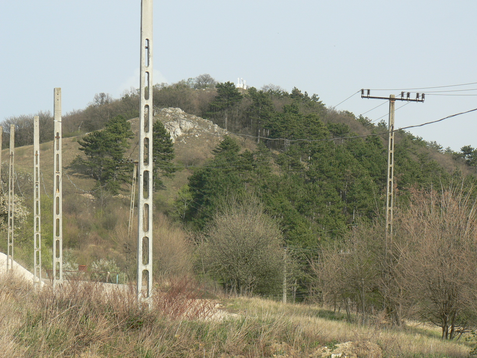 A pesthidegkúti Kálvária-hegy nyugatról nézve